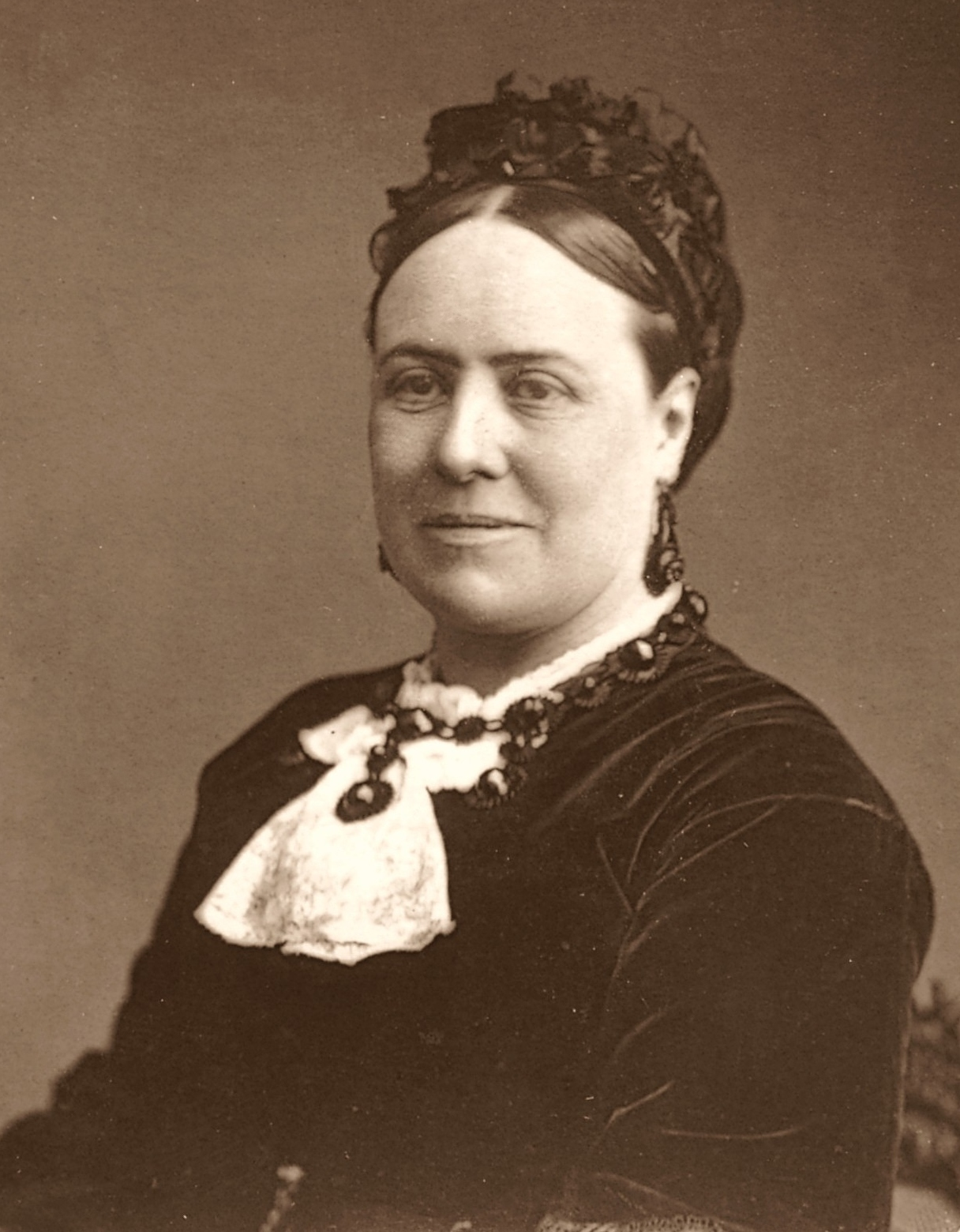 Mary Jane Seaman - Mrs. Chippendale 1837-1988, English Actress.